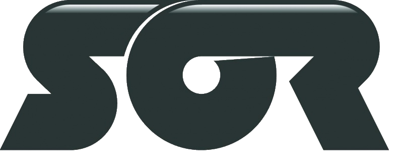 Logo of SOR